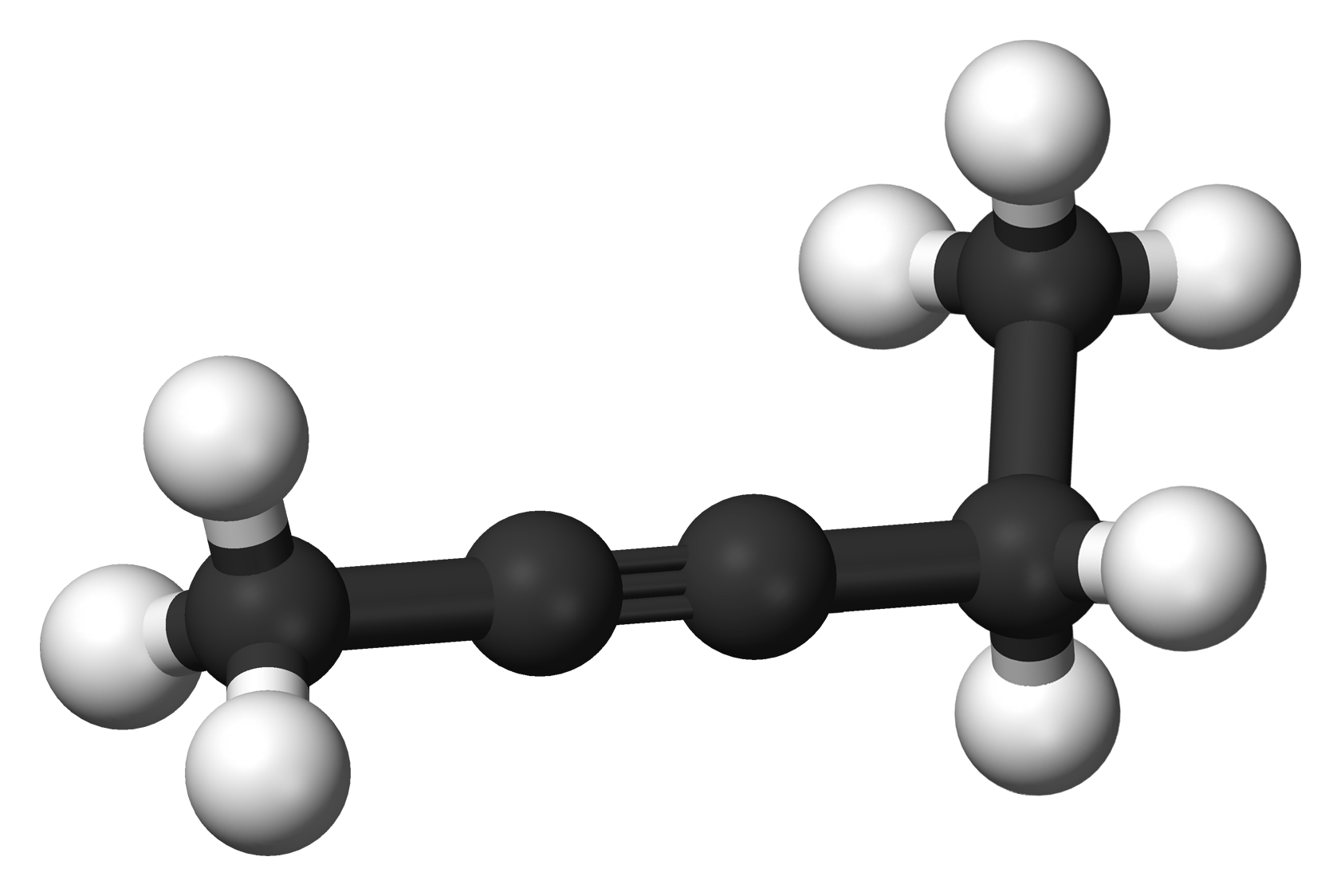 Ball-and-stick model of the 2-pentyne molecule (also known as ethyl-methyl-acetylene), a five-carbon internal alkyne.